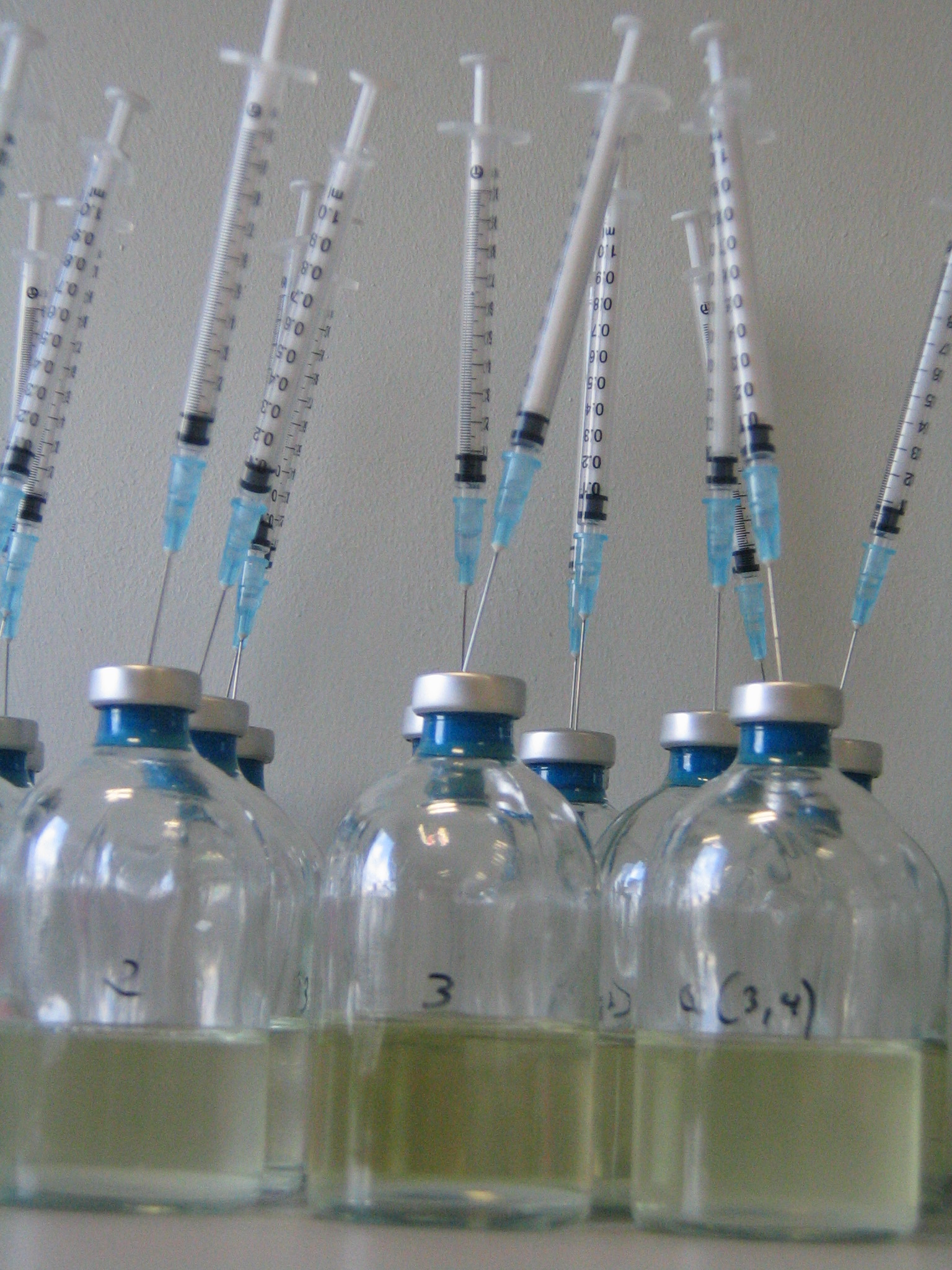 Bioreactor Akureyri